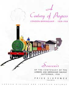 London Birmingham Railway Centenary, 1938 souvenir from the LMS illustrating the 2-2-0 locomotive of Edward Bury Image is expired Crown Copyright because the London Birmingham Railway was subsumed completely into elements of the UK government.